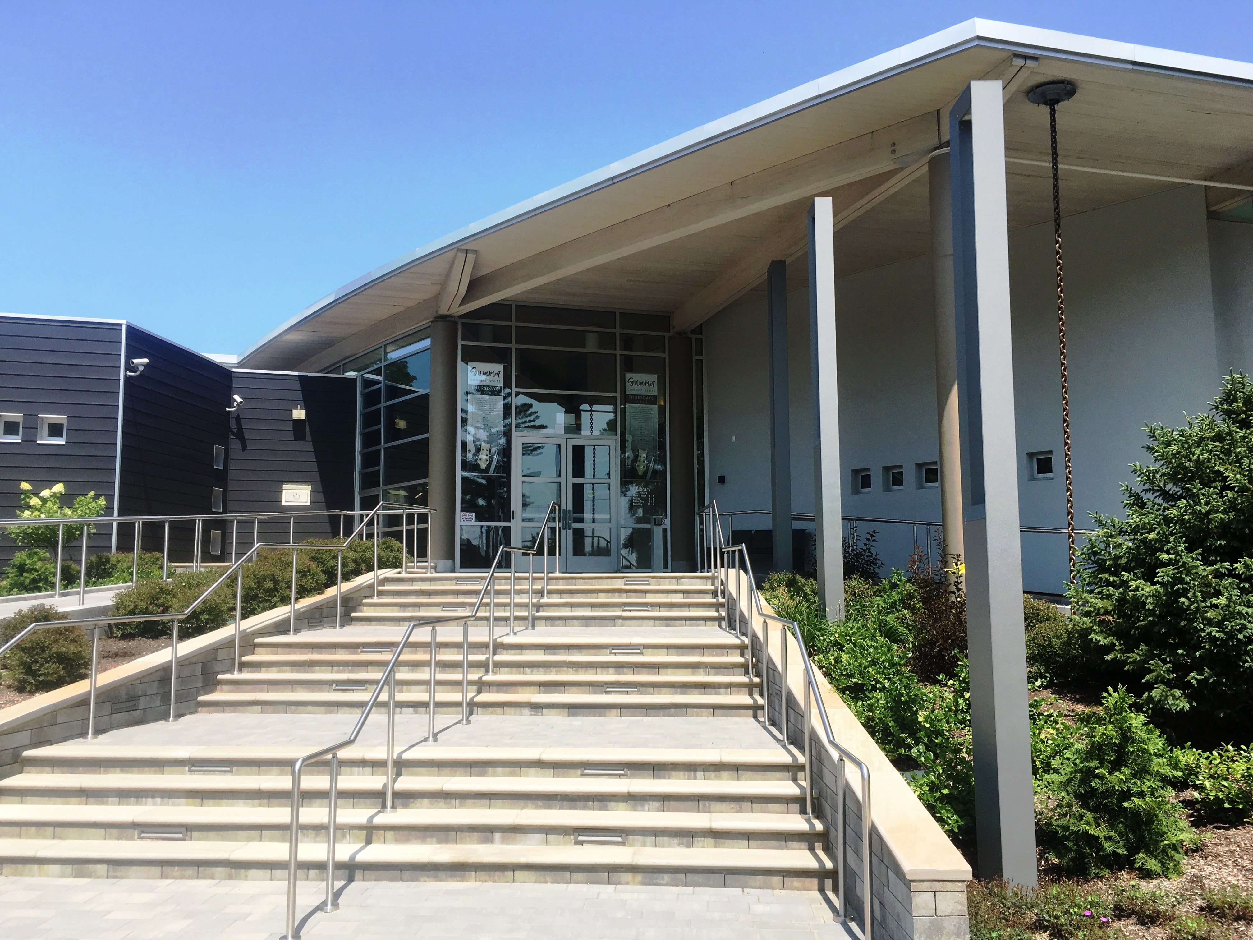 This depicts the front entrance of the Wauconda Area Library.